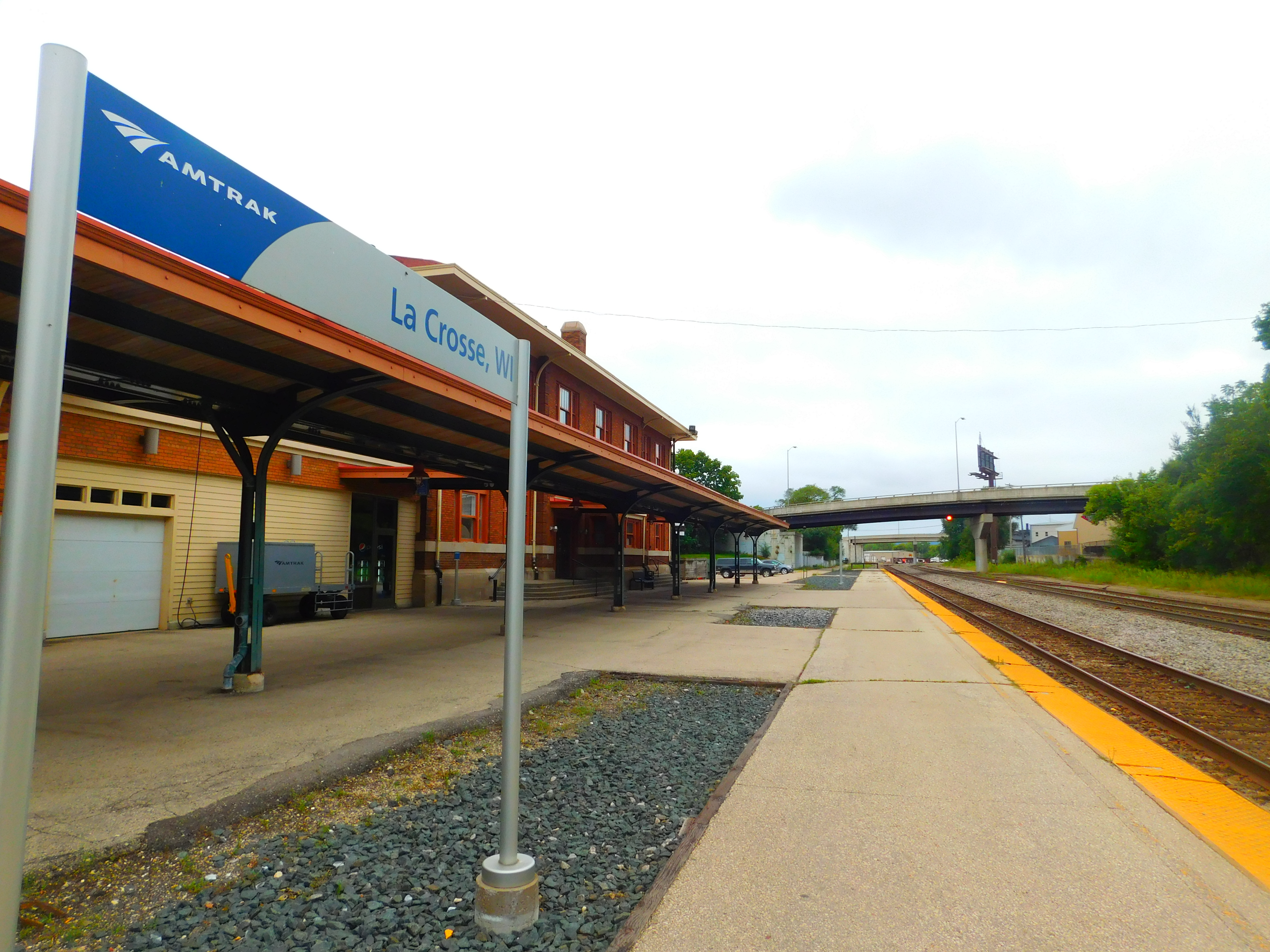 The Amtrak station in La Crosse, Wisconsin.